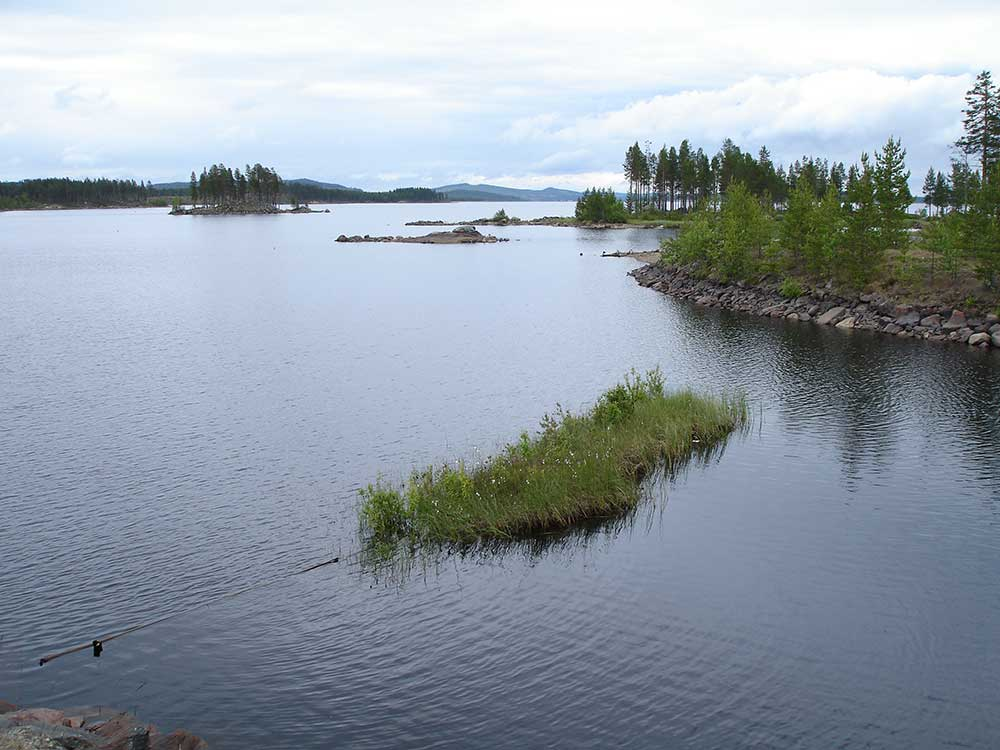 Skinnmuddselet reservoir in the Gide River in Sweden.